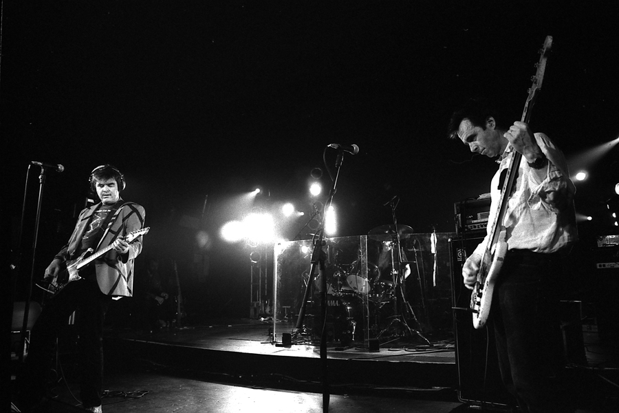 all tomorrow's parties uk 2004